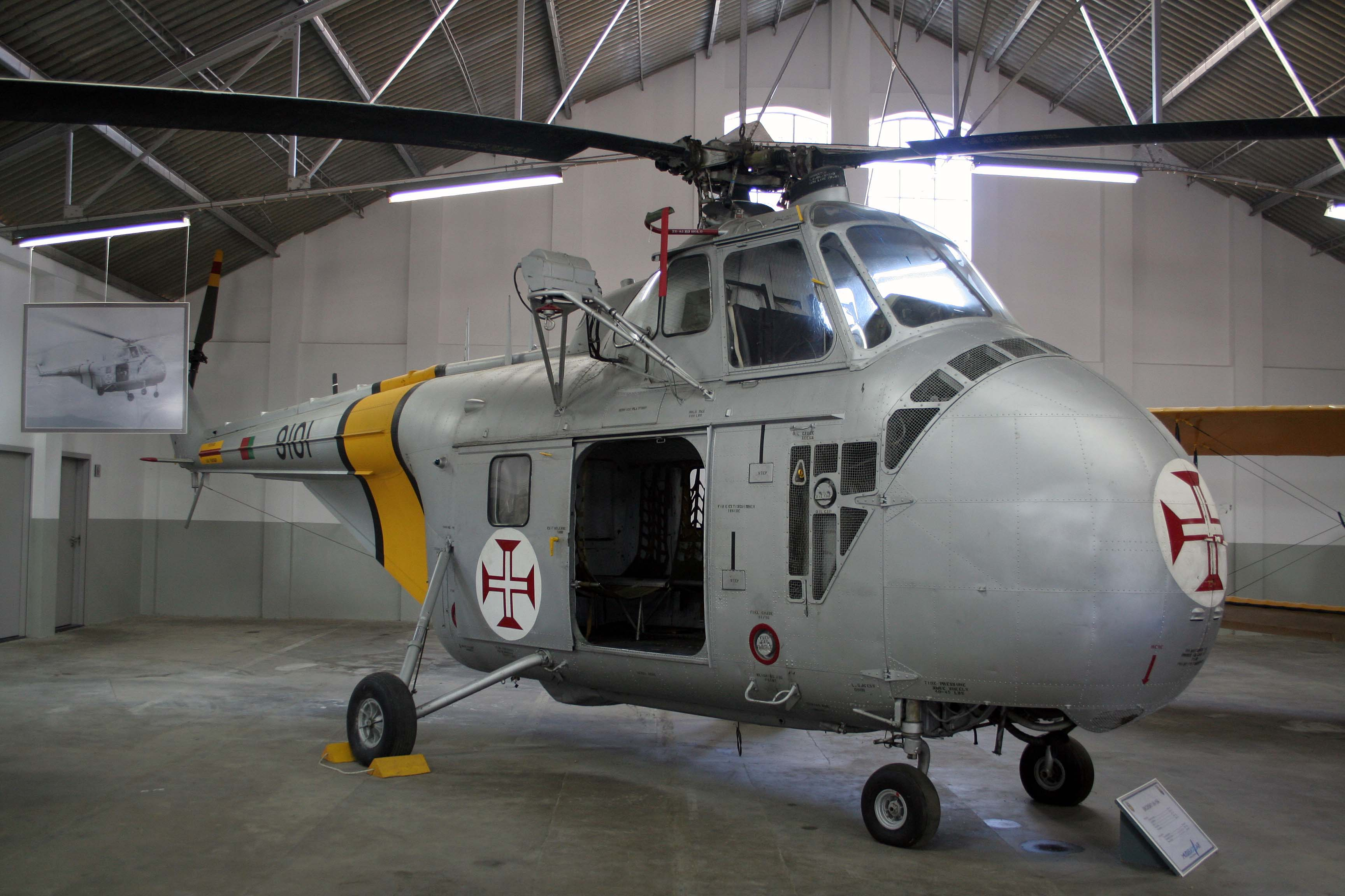 Portuguese Air Force Sikorsky UH-19A Source/Author: Soares da Silva